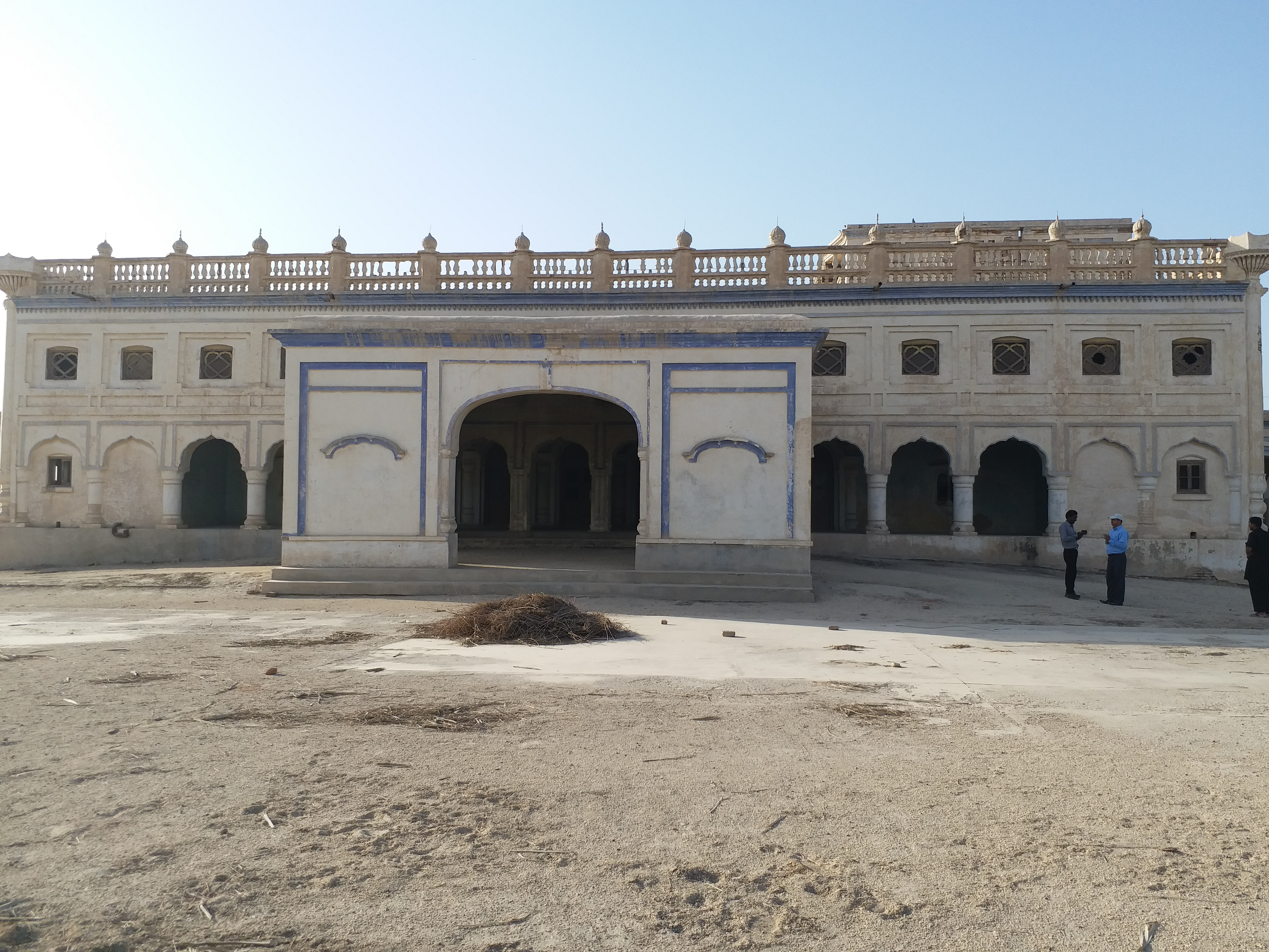 A local haveli or small palace owned by the Talpur family in Khairpur